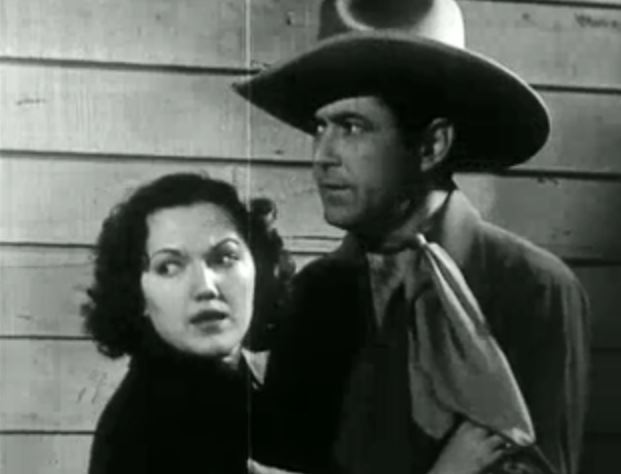 Low resolution screenshot of Stella Lamb (Lois January) and Dan Doran (Johnny Mack Brown) from the American western film Rogue of the Range (1936). The film is now in the public domain.